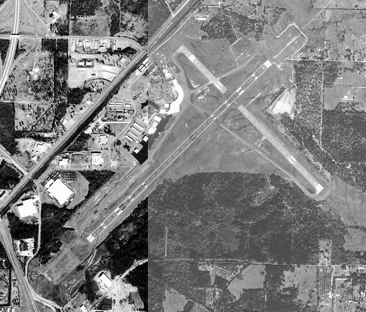 USGS digital orthophoto of Texarkana Regional Airport in Arkansas